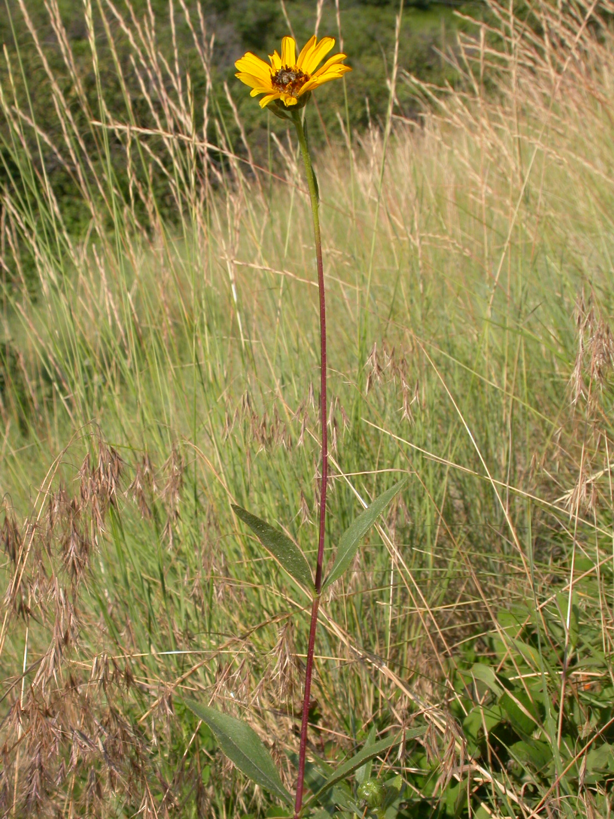 Stiff sunflower is common on moderately disturbed soils on the most exposed aspects (i.e., south and west).